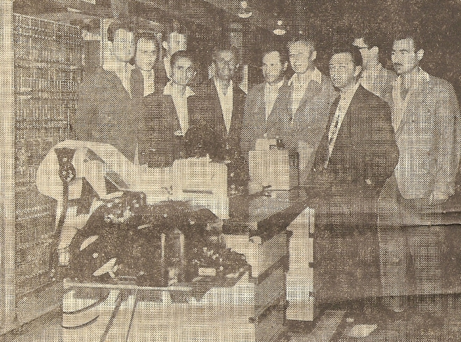 Picture of the designersgroup of CER.10, the first Serbian digital computer at M.P.Institute Belgrade. Designers (from left): Dragisa Tinkovic, Milos Ciglecki, ing. Vukasin Masnikosa, ing. Dusan Hristovic, dr ing. Rajko Tomovic, ing. Ahmed Mandzic, dr ing. Tihomir Aleksic, ing. Petar Vrbavac, ing. Milojko Maric, Danilo Popovic. Comment This picture will be used in the Wikipedia papers for CER-10 computer description, free under GFDL licence. See also: for the consent from the M.Pupin Institute Marketing Dept. Belgrade. User: Dusan Hristovic, IMP-Belgrade.